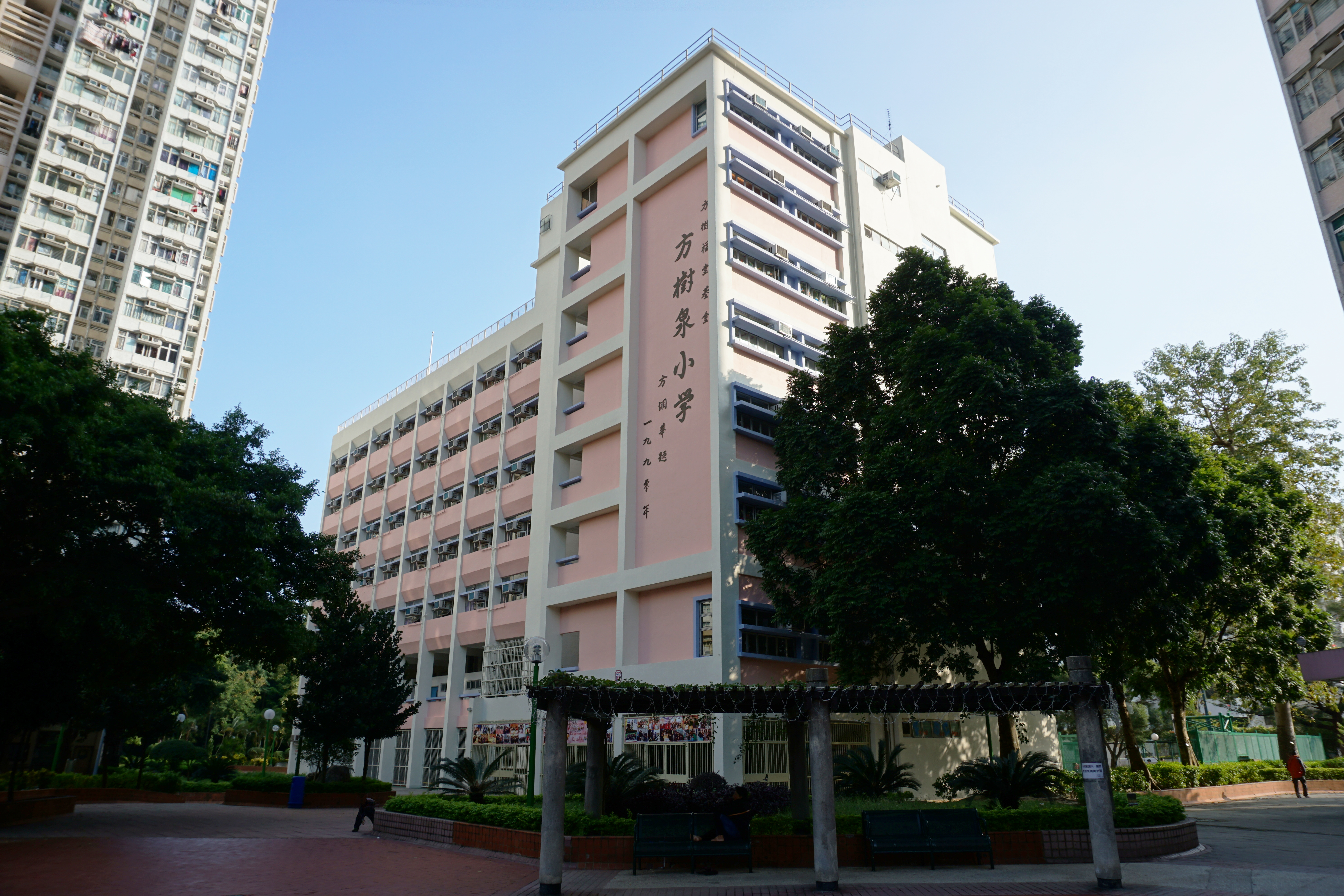 Fong Shu Fook Tong Foundation Fong Shu Chuen Primary School in Fanling, Hong Kong.